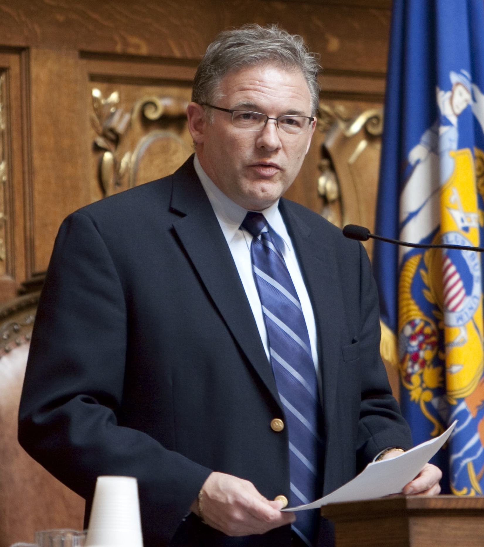 Former Wisconsin State Assemblyman Michael J. Sheridan.